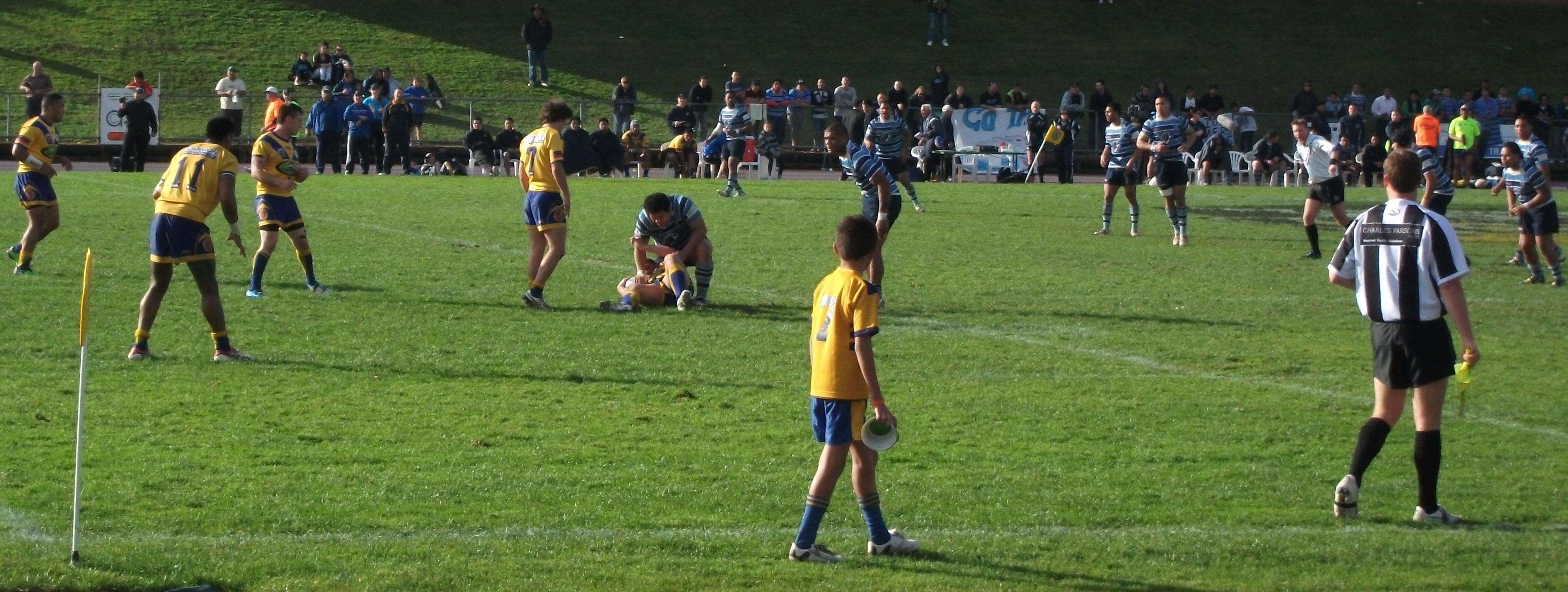 Auckland Rugby League Grand Final: Mt Albert Lions v Otahuhu Leopards, 28 August 2010